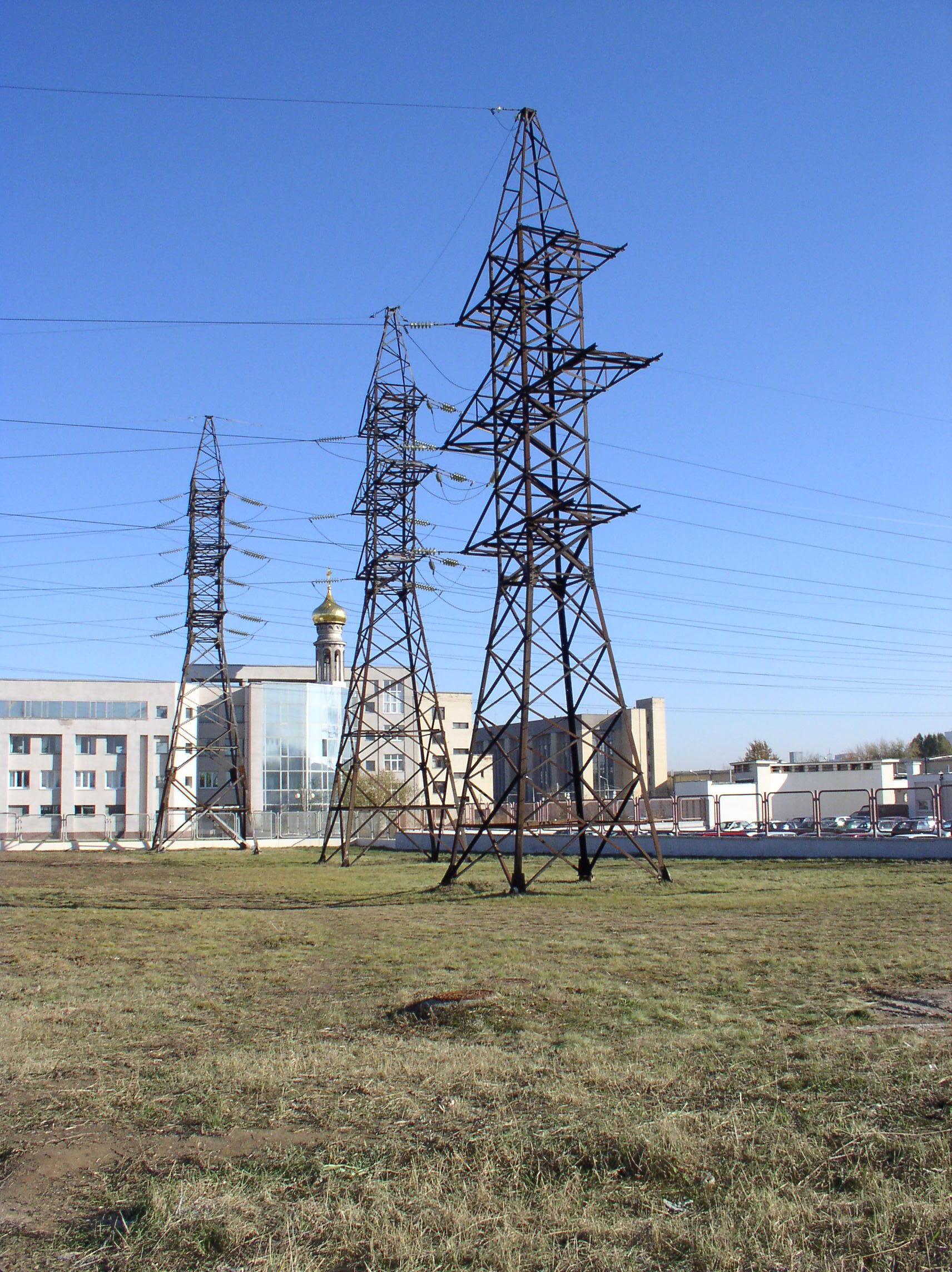 Electricity pylons and Church of Saint John of Rila. Minsk, Belarus.